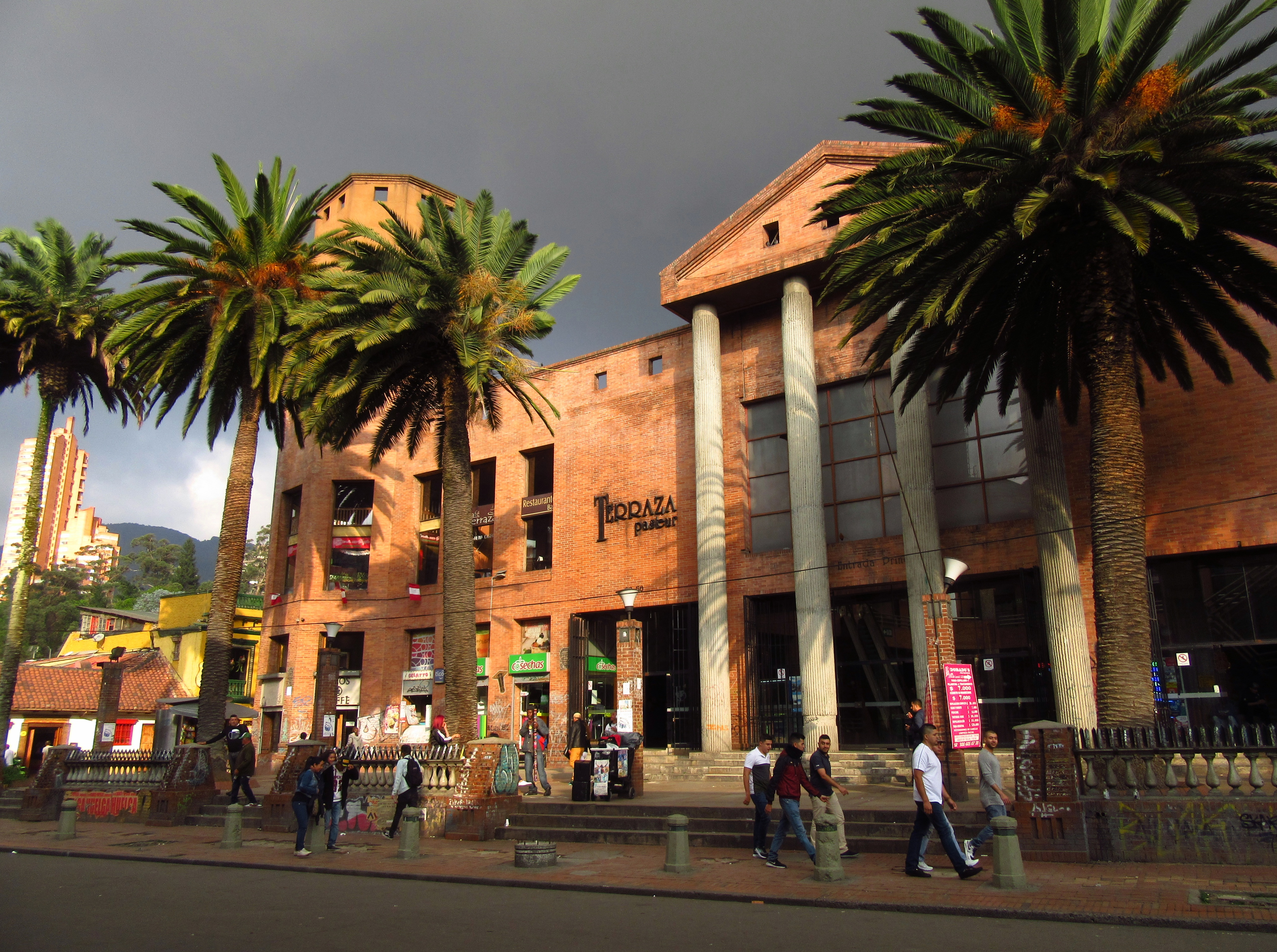 Bogotá